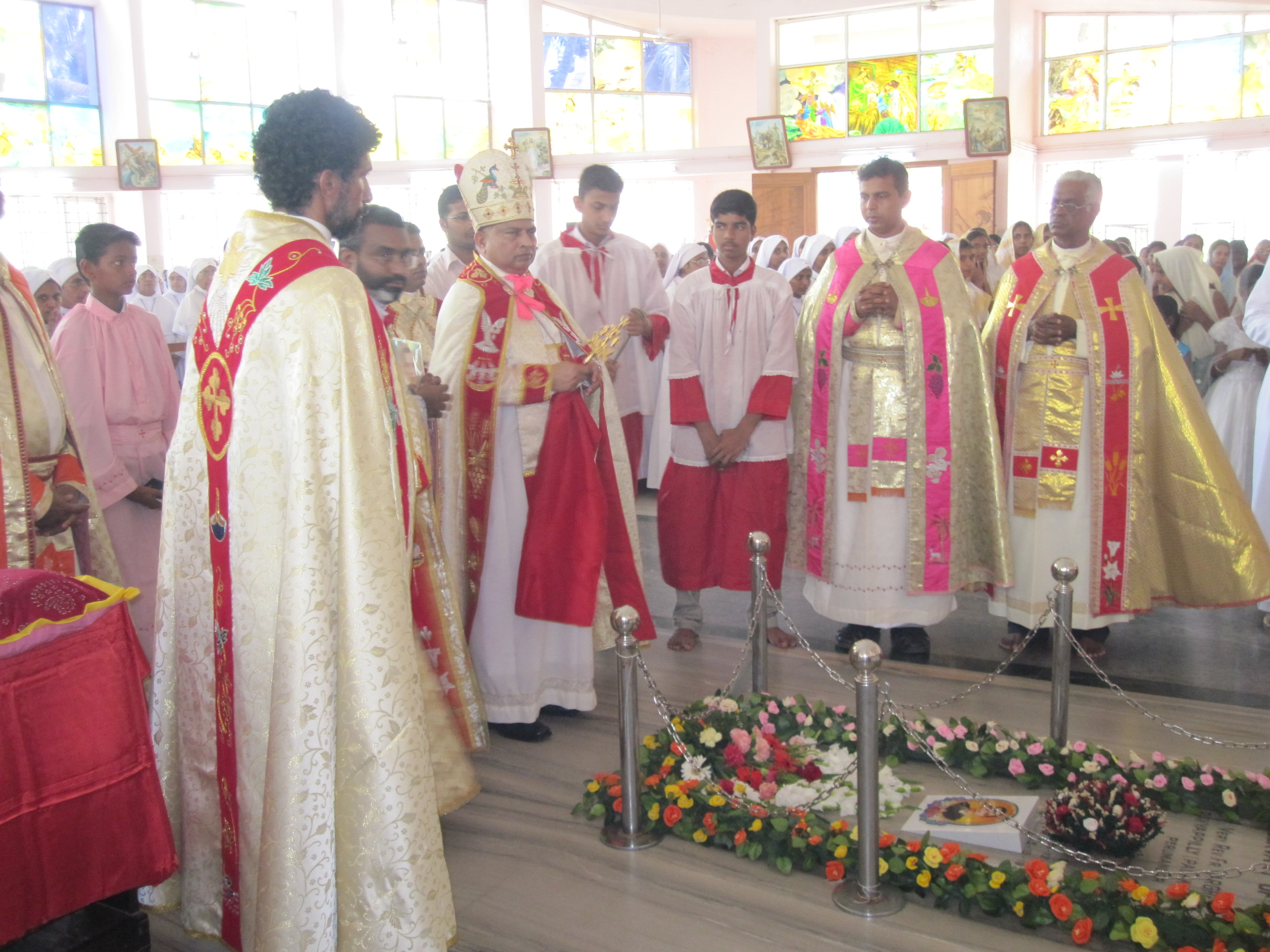 Mar Mathew Arackal (Bishop of Kanjirappally Eparchy) and Rev. Dr. Prasant Payyappilly Palakkappilly C.M.I (Principal, Thevara Sacred Heart College) along with other priests at the tomb of Servant of God Mar Varghese Payyappilly Palakkappilly during his 81st Dukrana. Mar Thoma Cross, symbolizing the heritage and identity of the Syrian Church of Saint Thomas Christians, is seen in the hands of the bishop.